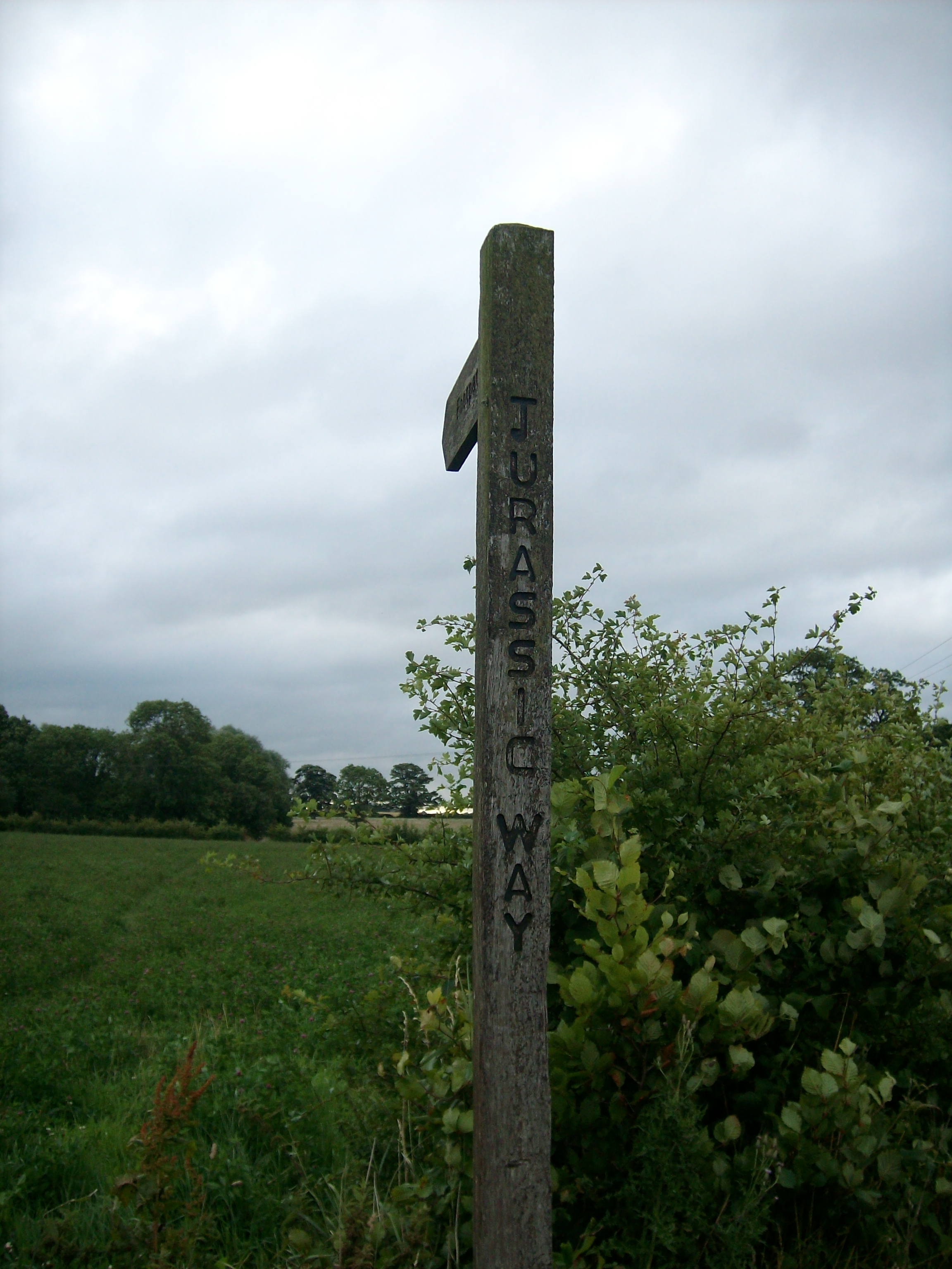 Sign on Jurassic Way, a long-distance footpath in England. "I was doing a shorter walk of around 10 miles; the two paths coincided."